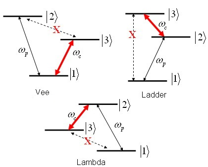 Level schemes of three basic types of EIT settings.